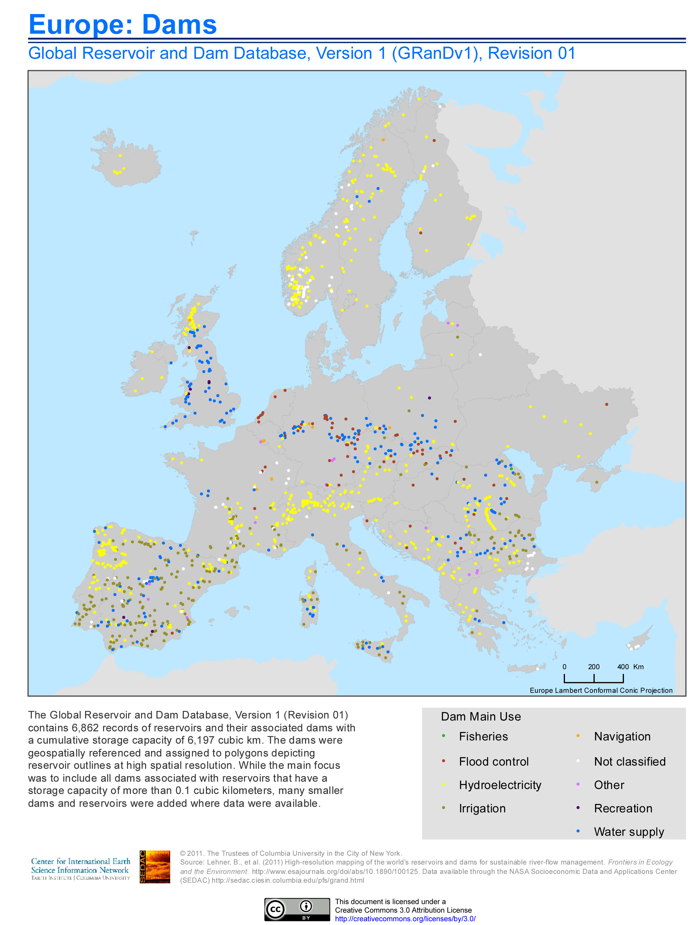 The Global Reservoir and Dam Database, Version 1 (Revision 01) contains 6,862 records of reservoirs and their associated dams with a cumulative storage capacity of 6,197 cubic km. The dams were geospatially referenced and assigned to polygons depicting reservoir outlines at high spatial resolution. Dams have multiple attributes, such as name of the dam and impounded river, primary use, nearest city, height, area and volume of reservoir, and year of construction (or commissioning). While the main focus was to include all dams associated with reservoirs that have a storage capacity of more than 0.1 cubic kilometers, many smaller dams and reservoirs were added where data were available.